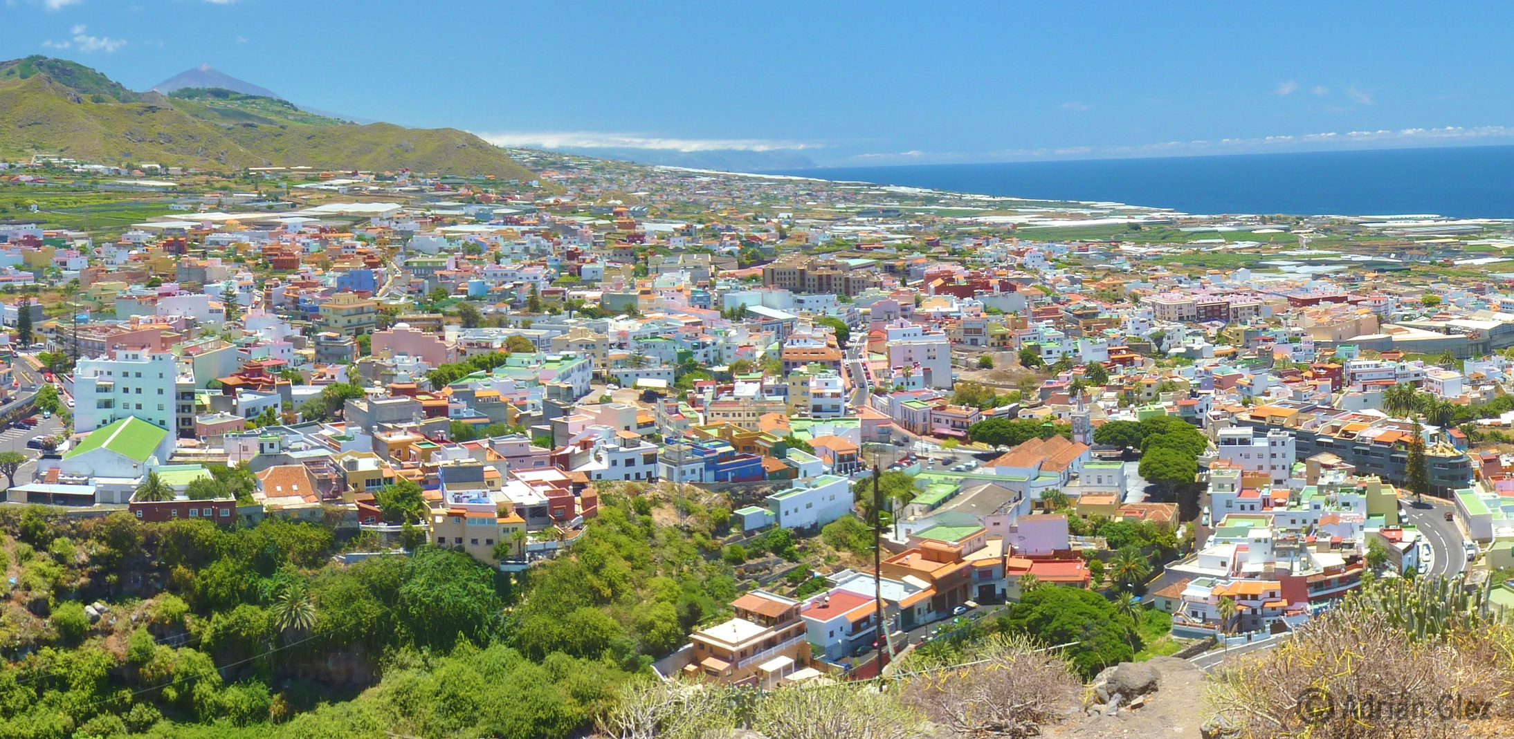 Photo of the Tejina's center